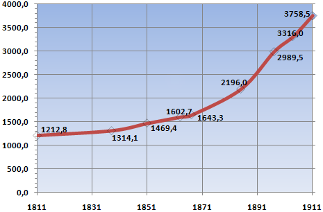 Population dynamics of Volyn government 1811 - 1911